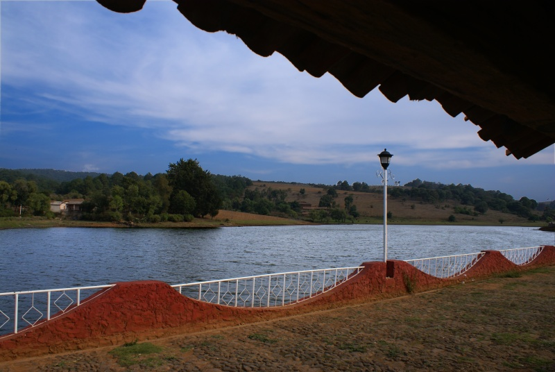 Nice View from "El Chiflon" dam in La Manzanilla de la Paz, Jalisco